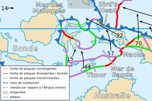 Map of the Banda Sea Plate